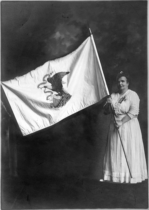 Ella Park Lawrence holding the first version of the Flag of Illinois